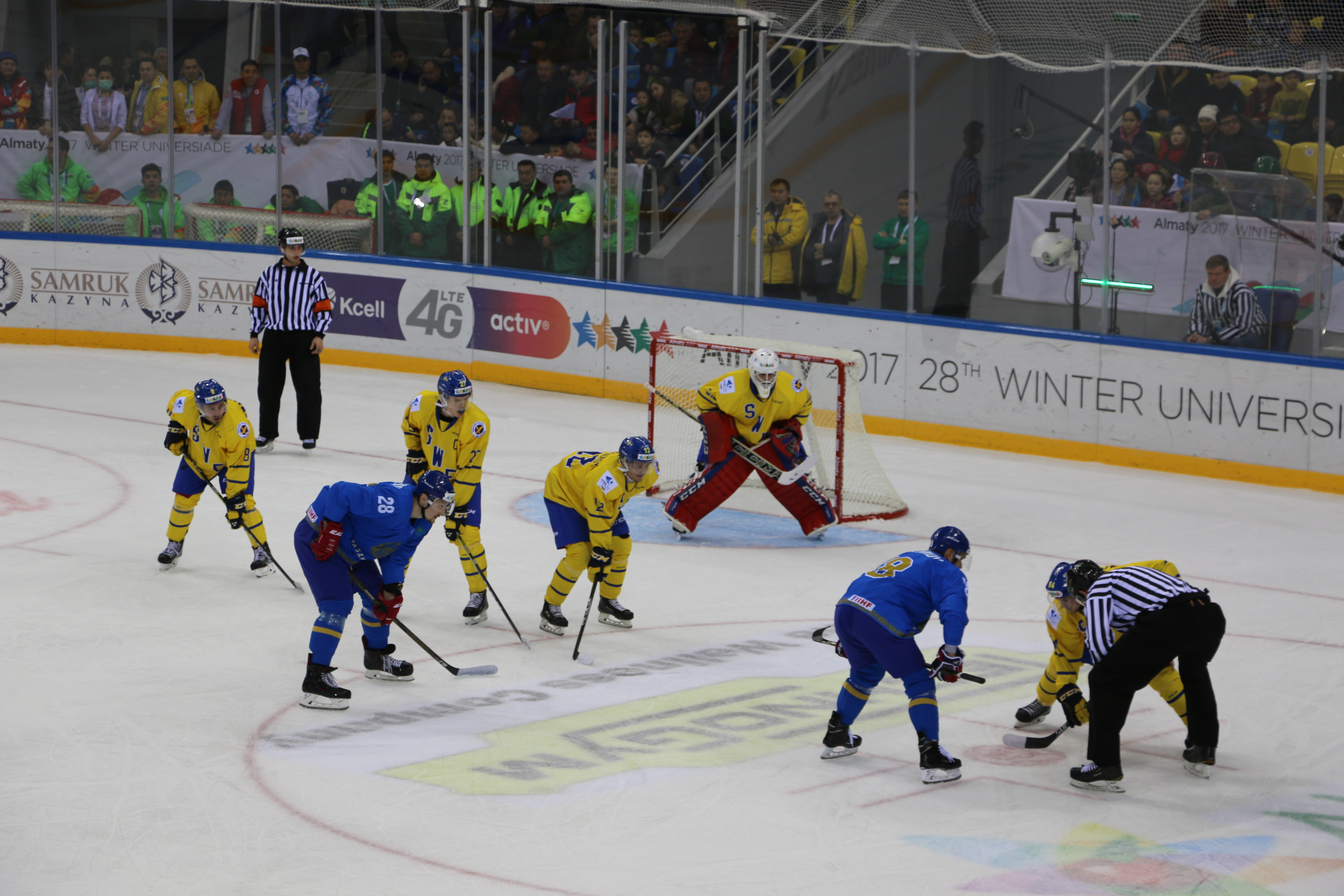 Universiade 2017. Ice hockey. Men. KAZ - SWE